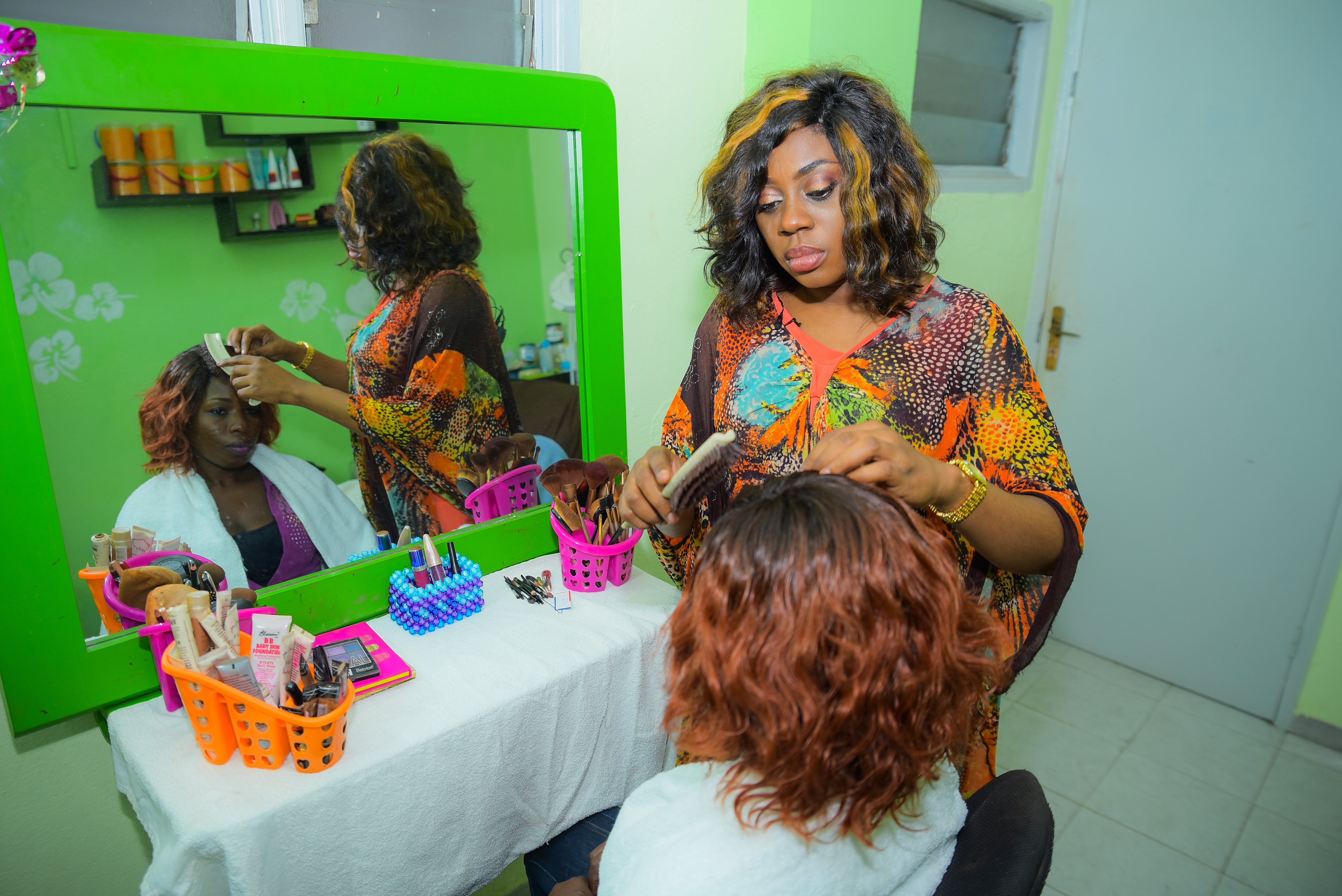 a hairdresser at work in Ivory Coast This is an image of "African people at work" from Ivory Coast